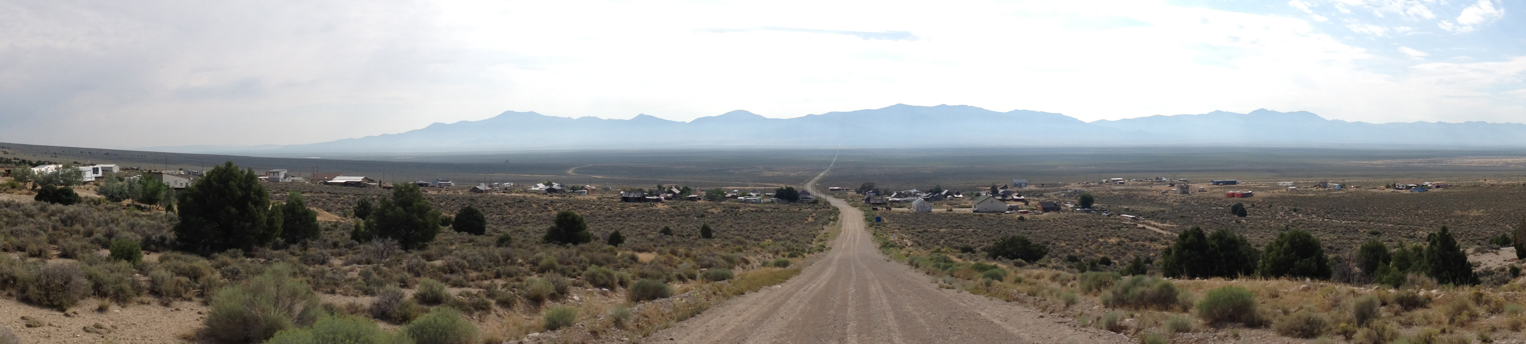 Panorama of Cherry Creek, Nevada from White Pine County Route 21 just to the west, looking east, with former Nevada State Route 489 (Cherry Creek Road)-cropped